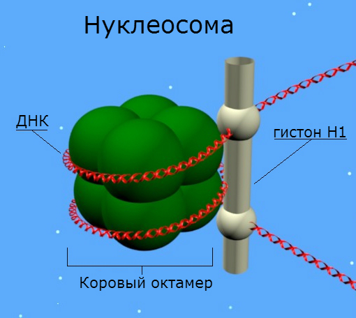 A 3-D Illustration of the basic structure of a nucleosome